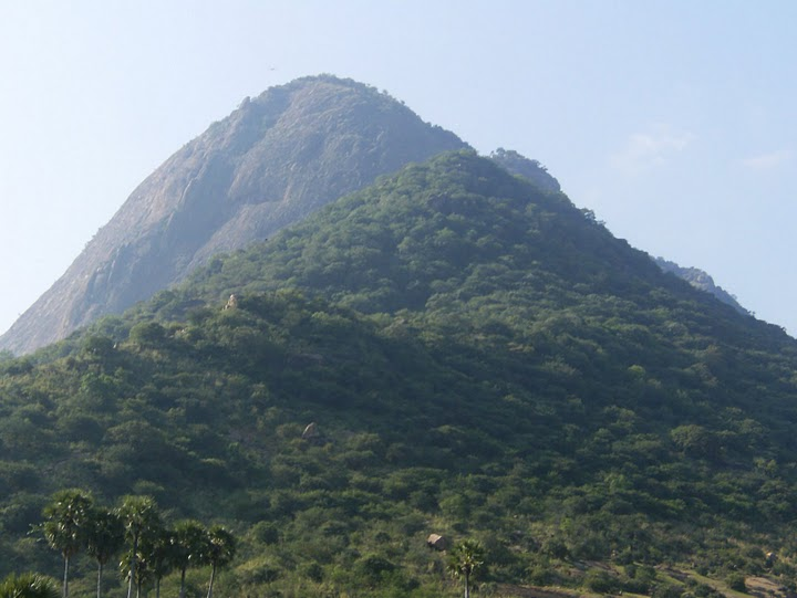 Hill in the form of a measure of paddy known as "marakkal"